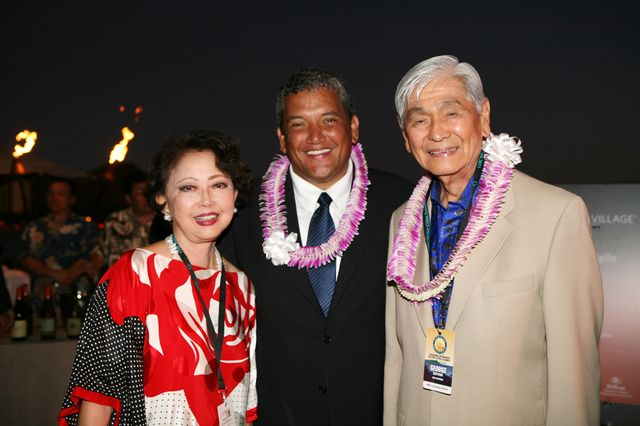 Hawaii County Mayor Billy Kenoi and former Gov. Georger Ariyoshi and former first lady Jean Ariyoshi during the reception for the Sister Cities Summit held Sept. 13 in Honolulu. Both the former governor and Mayor Kenoi spoke during the Asia Pacific Clean Energy Summit held concurrently with the Sister Cities Summit.